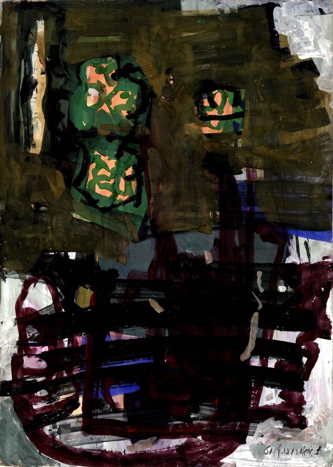 Zvi Mairovich gouache 1961 70x50 cm